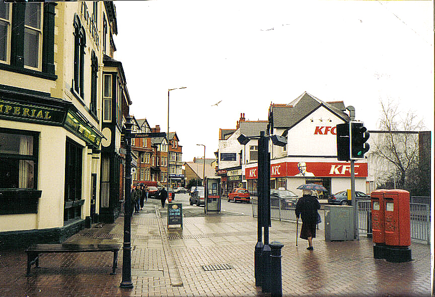 A picture I took of Colwyn Bay in the early 2000's. I donate it to the public domaine.